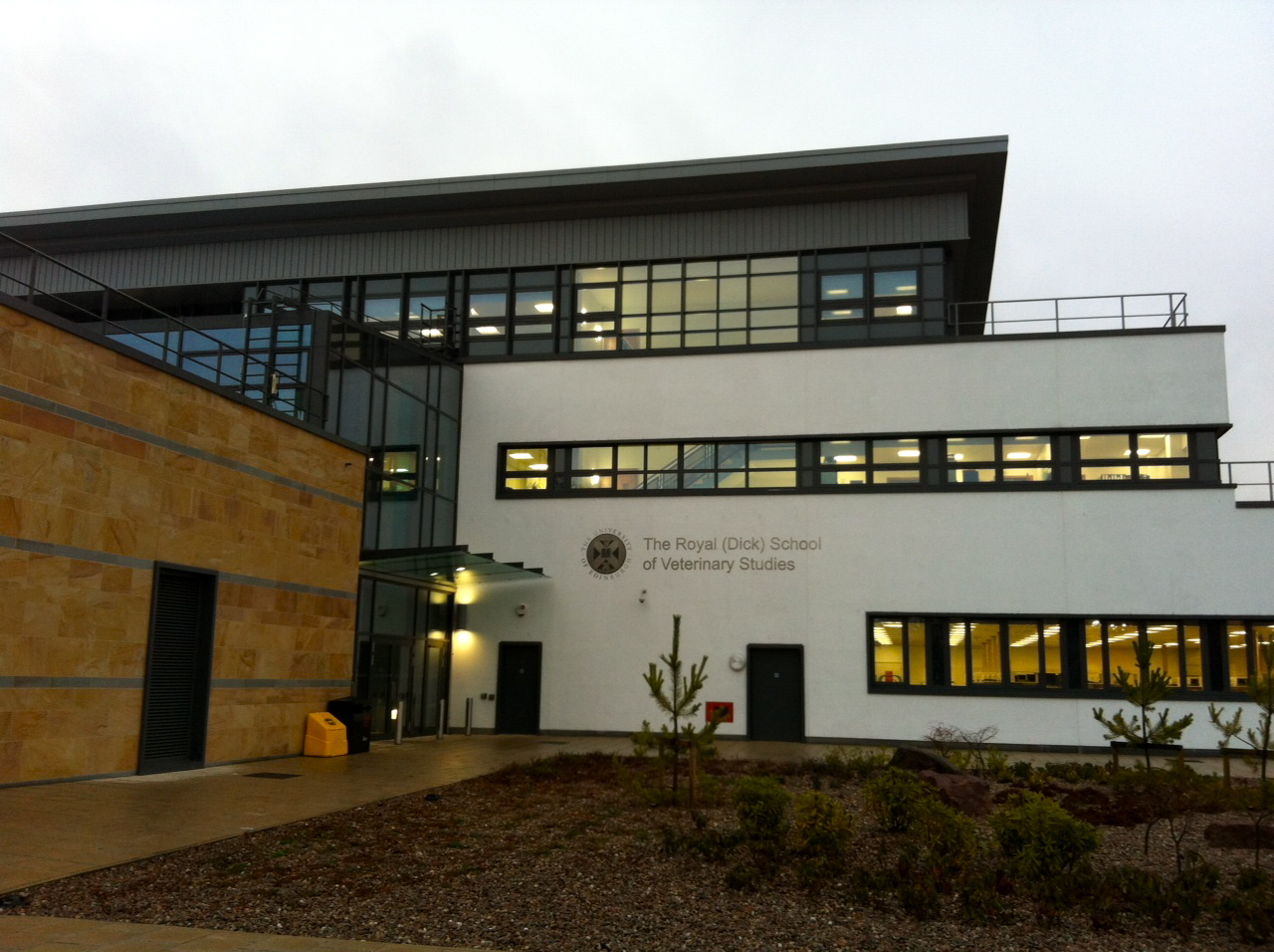 Royal School (Dick) of Veterinary Studies, University of Edinburgh, UK